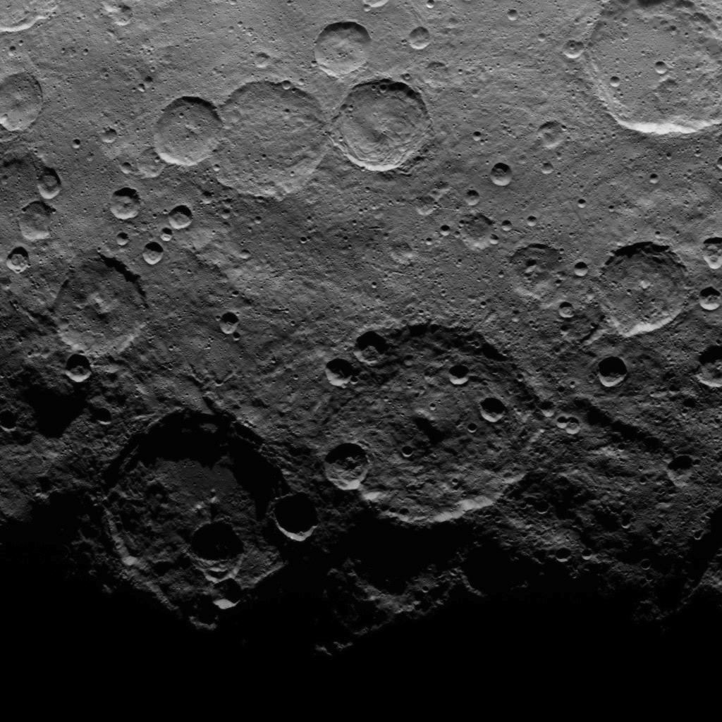 PIA19602: Dawn Survey Orbit Image 33 This image, taken by NASA's Dawn spacecraft, shows dwarf planet Ceres from an altitude of 2,700 miles (4,400 kilometers). The image, with a resolution of 1,400 feet (410 meters) per pixel, was taken on June 25, 2015. Dawn's mission is managed by JPL for NASA's Science Mission Directorate in Washington. Dawn is a project of the directorate's Discovery Program, managed by NASA's Marshall Space Flight Center in Huntsville, Alabama. UCLA is responsible for overall Dawn mission science. Orbital ATK, Inc., in Dulles, Virginia, designed and built the spacecraft. The German Aerospace Center, the Max Planck Institute for Solar System Research, the Italian Space Agency and the Italian National Astrophysical Institute are international partners on the mission team. For a complete list of acknowledgments, For more information about the Dawn mission, visit